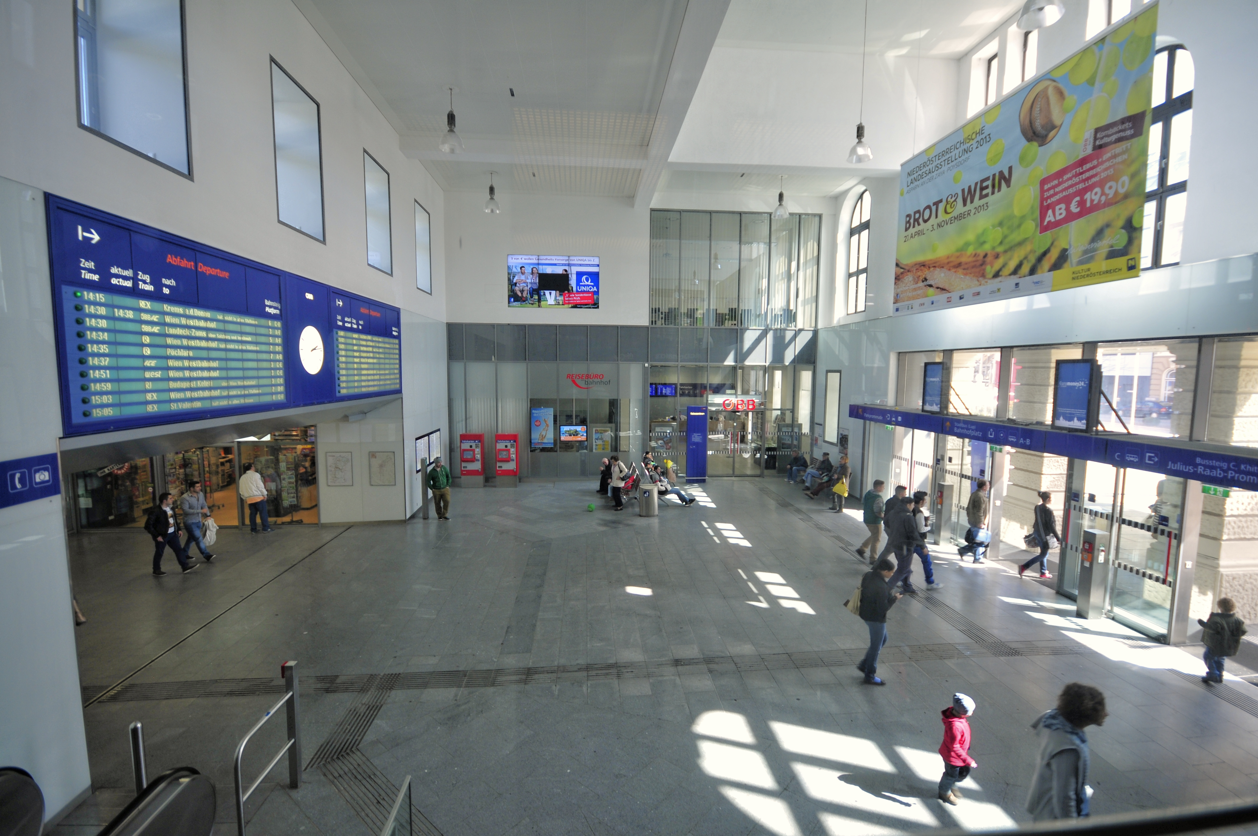 St. Pölten, Austria, Main Train Station Fotowanderung St. Pölten 13. April 2013 in St. Pölten, Niederösterreich 50mm • Allgemeines • Bahnhof • Domplatz • Fahrräder • Landhausviertel • Rathausplatz